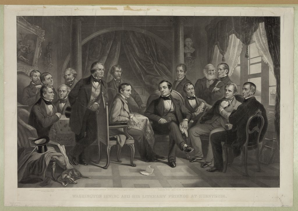 Washington Irving is shown in the centre of the picture, among his "literary friends", left to right: Henry Theodore Tuckerman, Oliver Wendell Holmes, Sr., William Gilmore Simms, Fitz-Greene Halleck, Nathaniel Hawthorne, Henry Wadsworth Longfellow, Nathaniel Parker Willis, William Hickling Prescott, (Irving), James Kirke Paulding, Ralph Waldo Emerson, William Cullen Bryant, John Pendleton Kennedy, James Fenimore Cooper, George Bancroft.